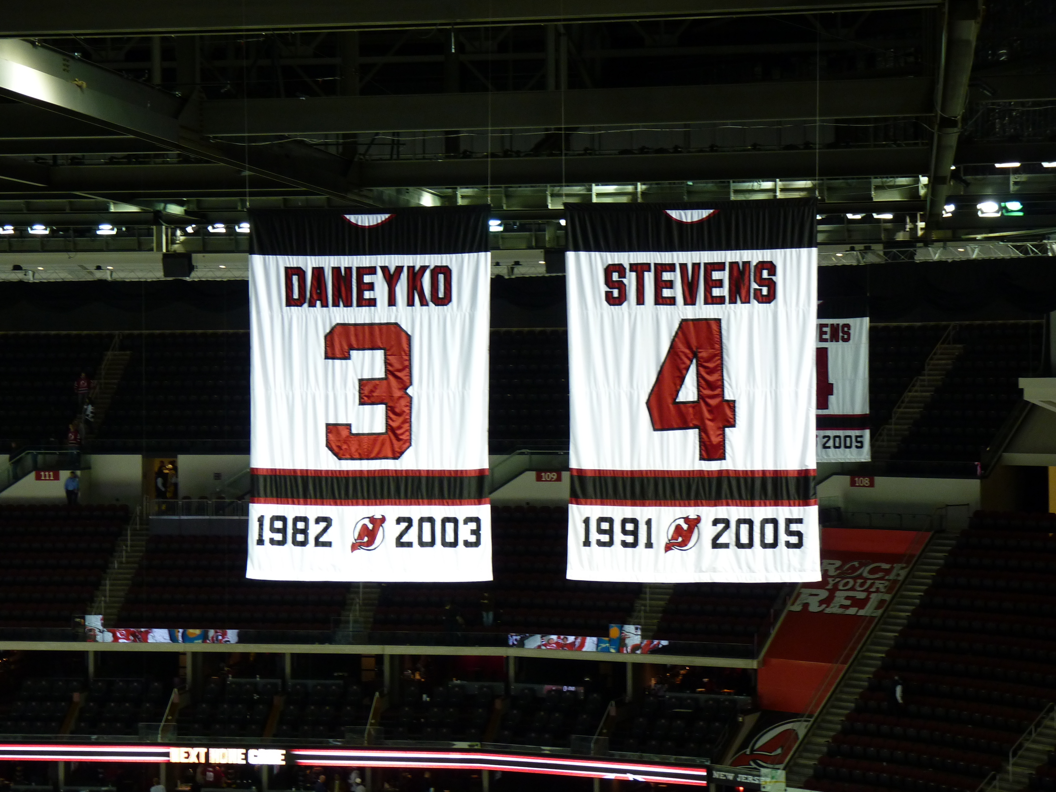 Banners honoring the retired jersey numbers of New Jersey Devils players Ken Daneyko (#3) and Scott Stevens (#4) at the Devils' arena, the Prudential Center